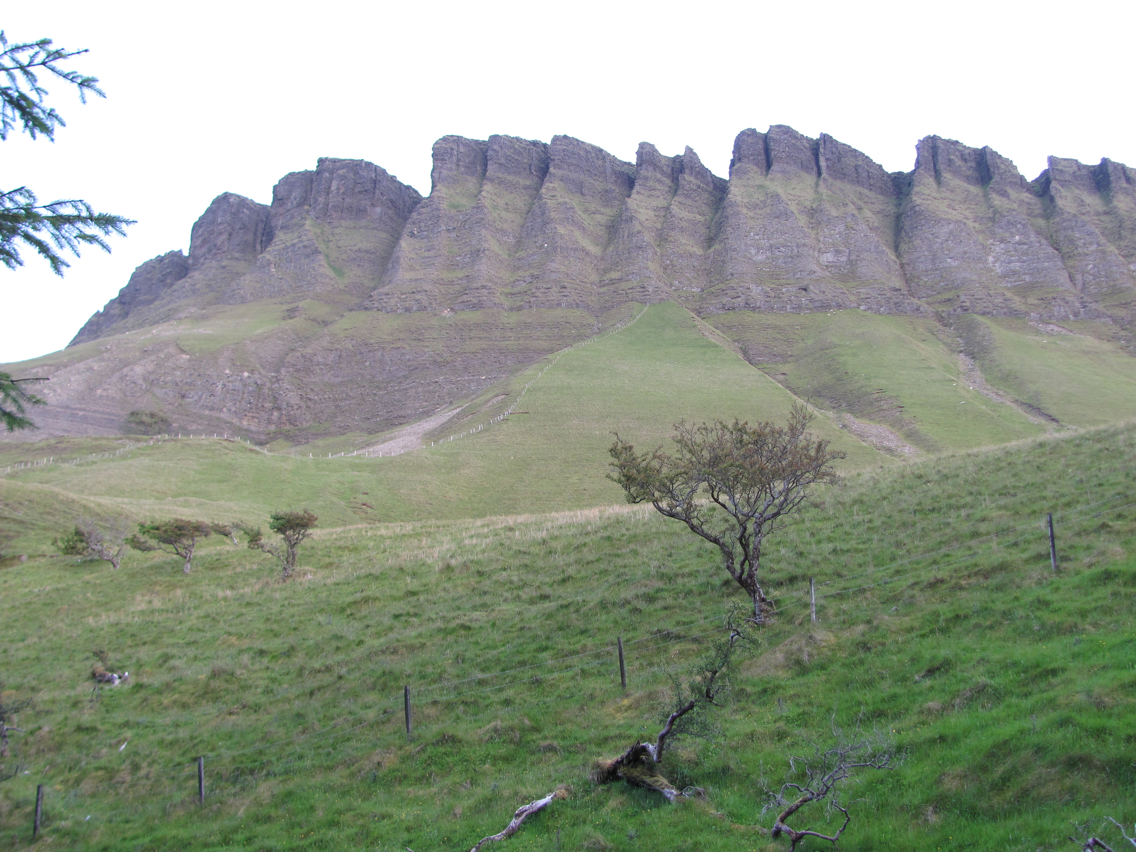 View of the North Western slope of Ben Bulben from Gortarowey Forest Recreation Area, County Sligo, Ireland